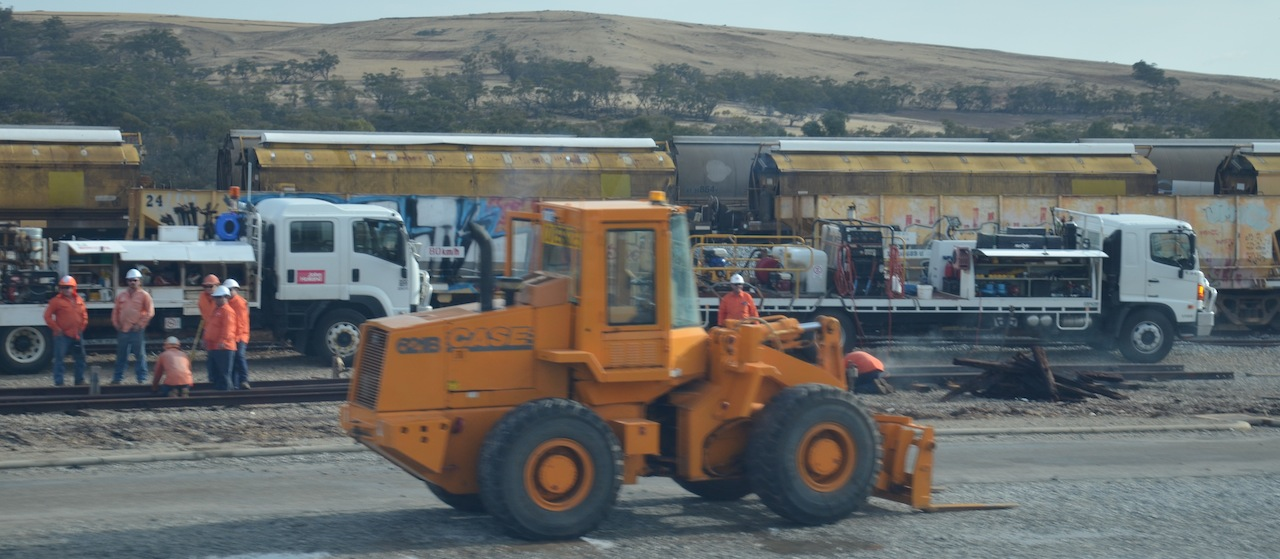 John Holland employees working on track in the Avon Yard, Western Australia. Wagons at rear are stored grain wagons ex Aurizon and earlier owners such as Westrail/WAGR... - photo taken from passing Prospector train on eastern line